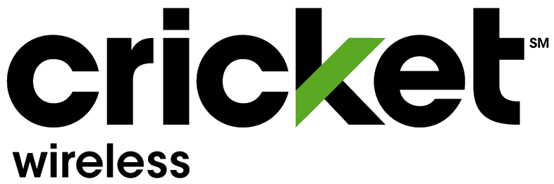 Logo of Cricket Wireless Logo, a subsidiary of AT&T Inc.